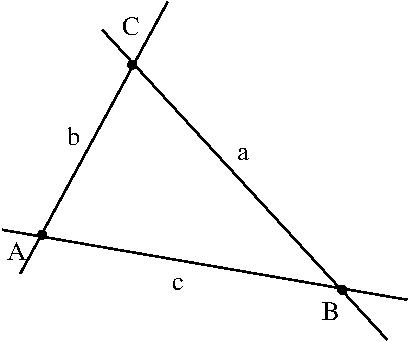 Triangle to be used in projective geometry.